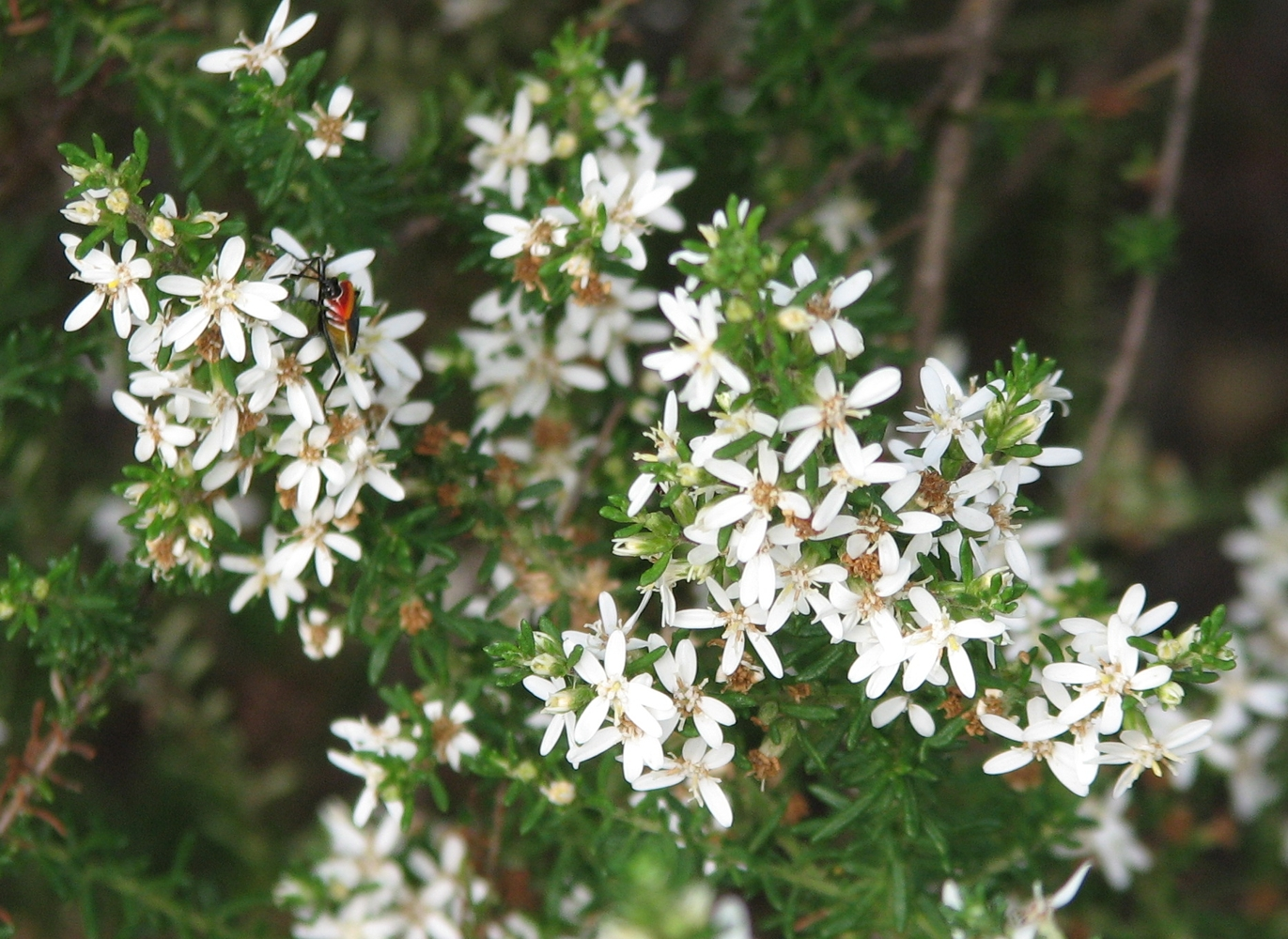 Olearia ramulosa, revegetation area, Gardiners Creek Reserve, Box Hill South, Victoria, Australia